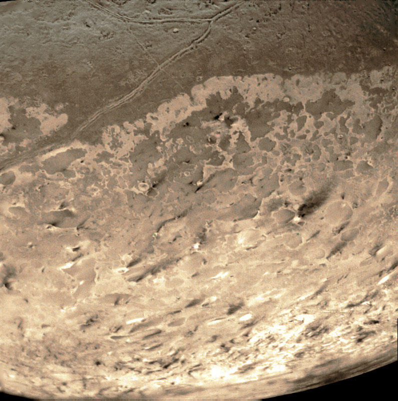 Triton's south polar terrain photographed by the Voyager 2 spacecraft. About 50 dark plumes mark what may be ice volcanoes. This version has been rotated 90 degrees counterclockwise and artificially colorized based on another Voyager 2 image.